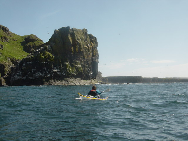 Kayaking south down the west coast of Lunga in a swell Kay West kayaking south on a Swaledale Outdoor Club sea trip to the Treshnish Isles and Staffa in a nine-second swell. Away from the cliffs, such a swell is a gentle rise and fall, but close in the waves crash noisily below the wheeling sea birds.